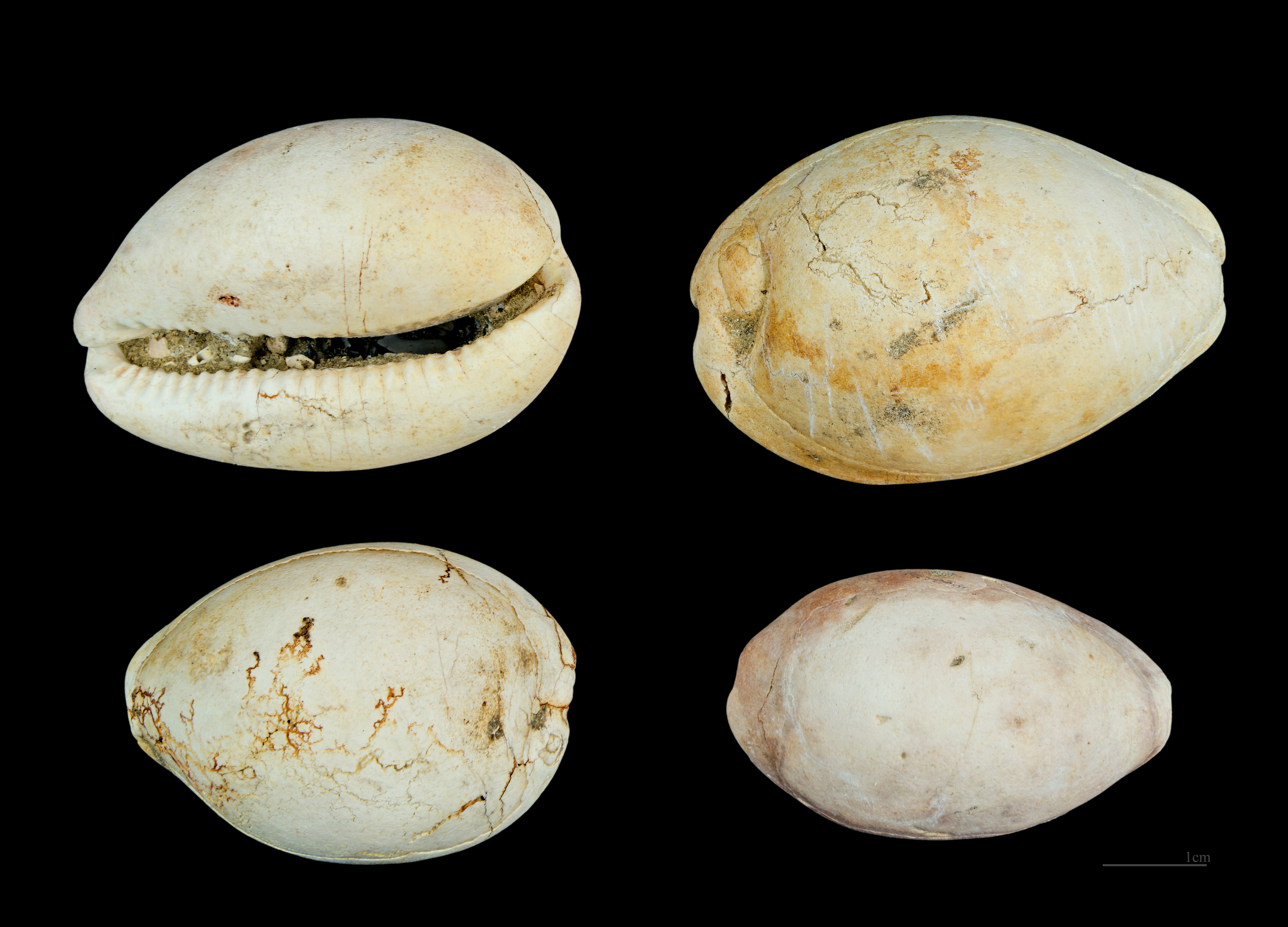 Trona leporina Stage : Burdigalian between 20.43 ± 0.05 Ma and 15.97 ± 0.05 Ma. Former collection of Jean-Baptiste Noulet